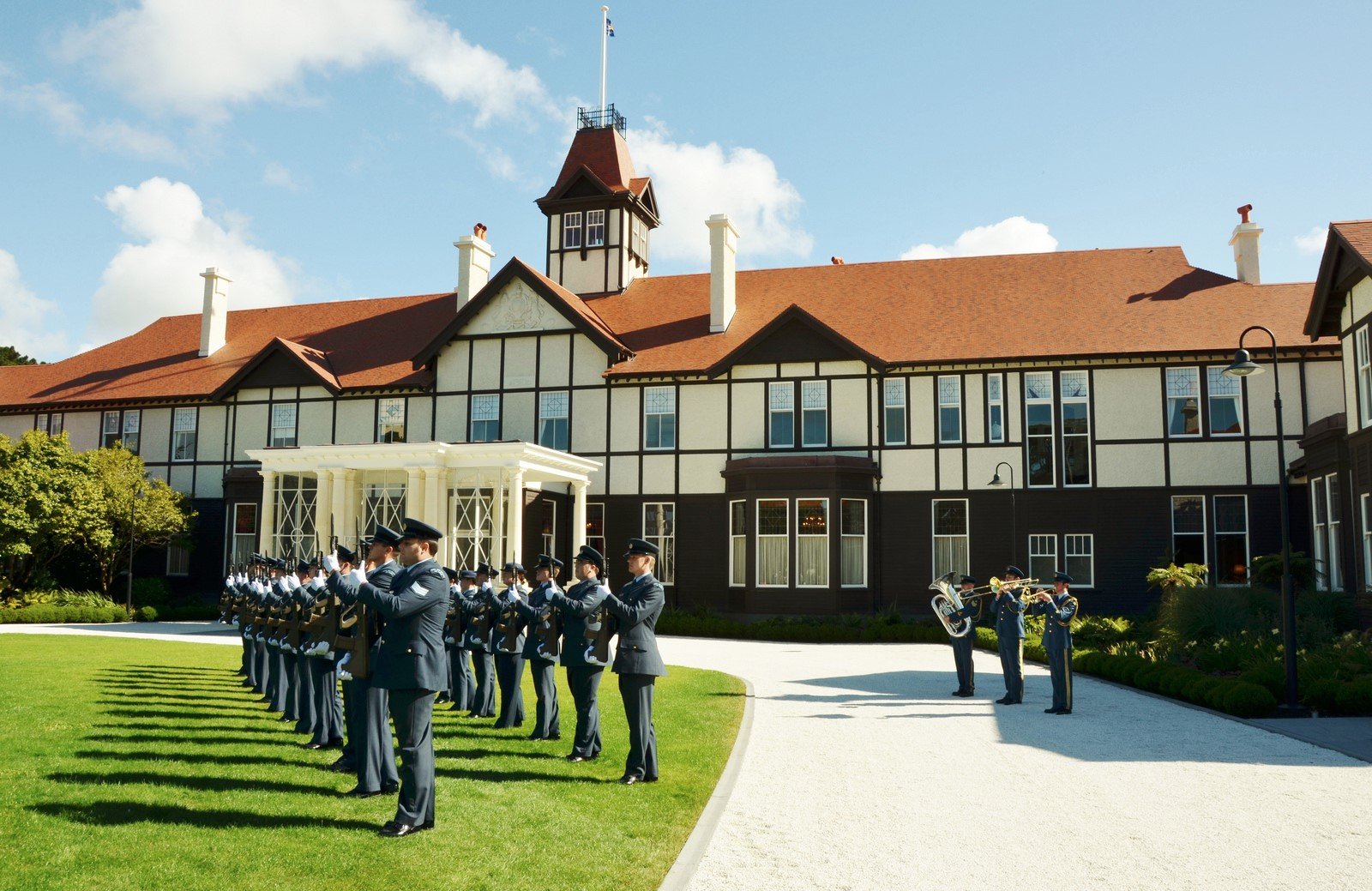 Estonian Ambassador H.E. Mr Andres Unga presents his credentials to the Governor-General of New Zeeland Sir Jeremiah Mateparae